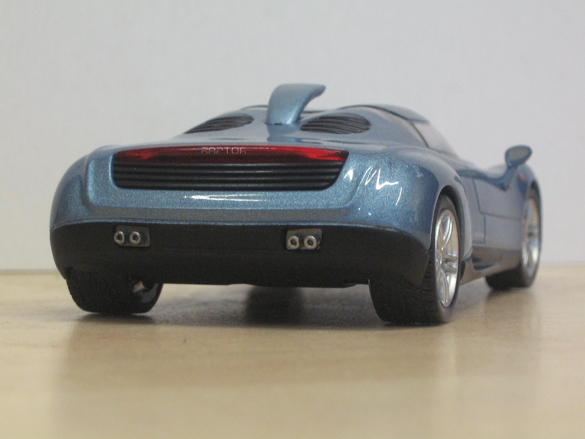 Original picure captured with photocamera.